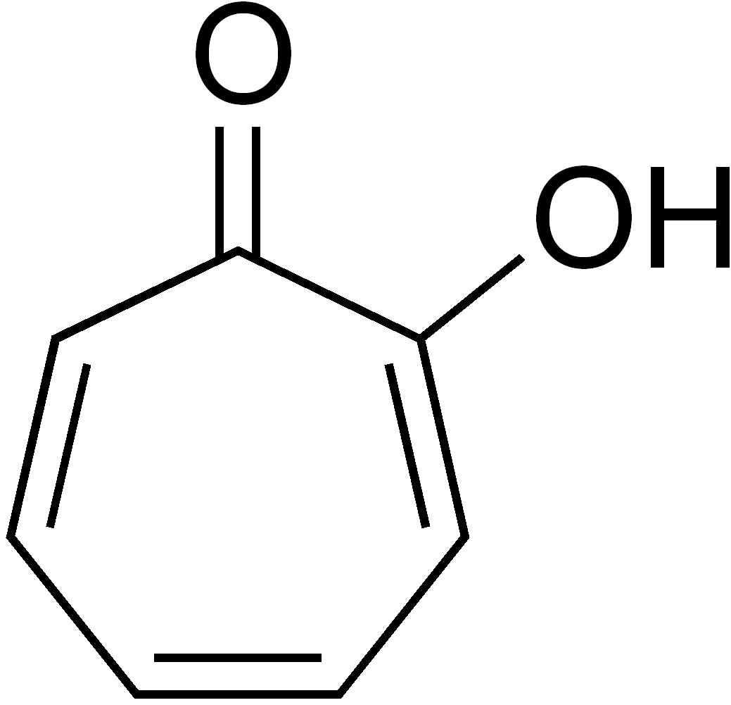 chemical structure of tropolone